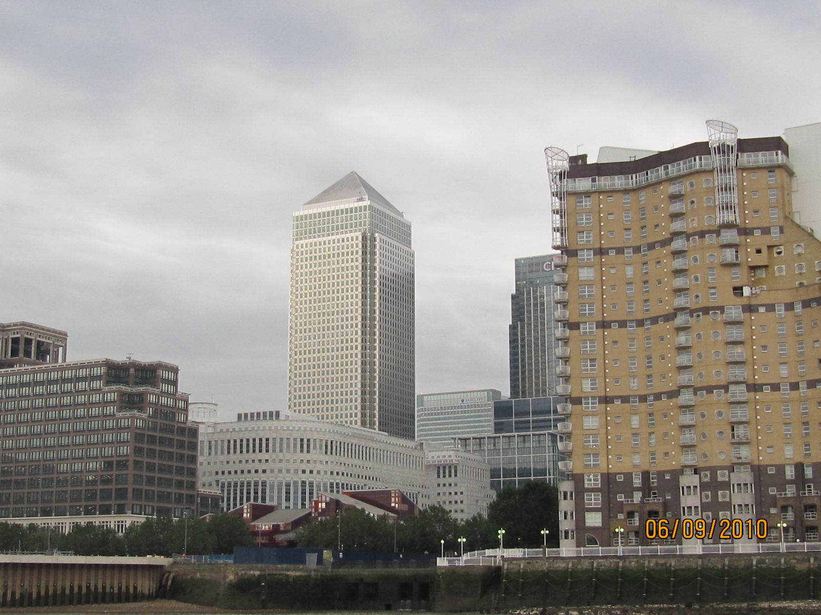 One Canada Square (left), Cascades Tower (right) and other buildings in Canary Wharf, London.